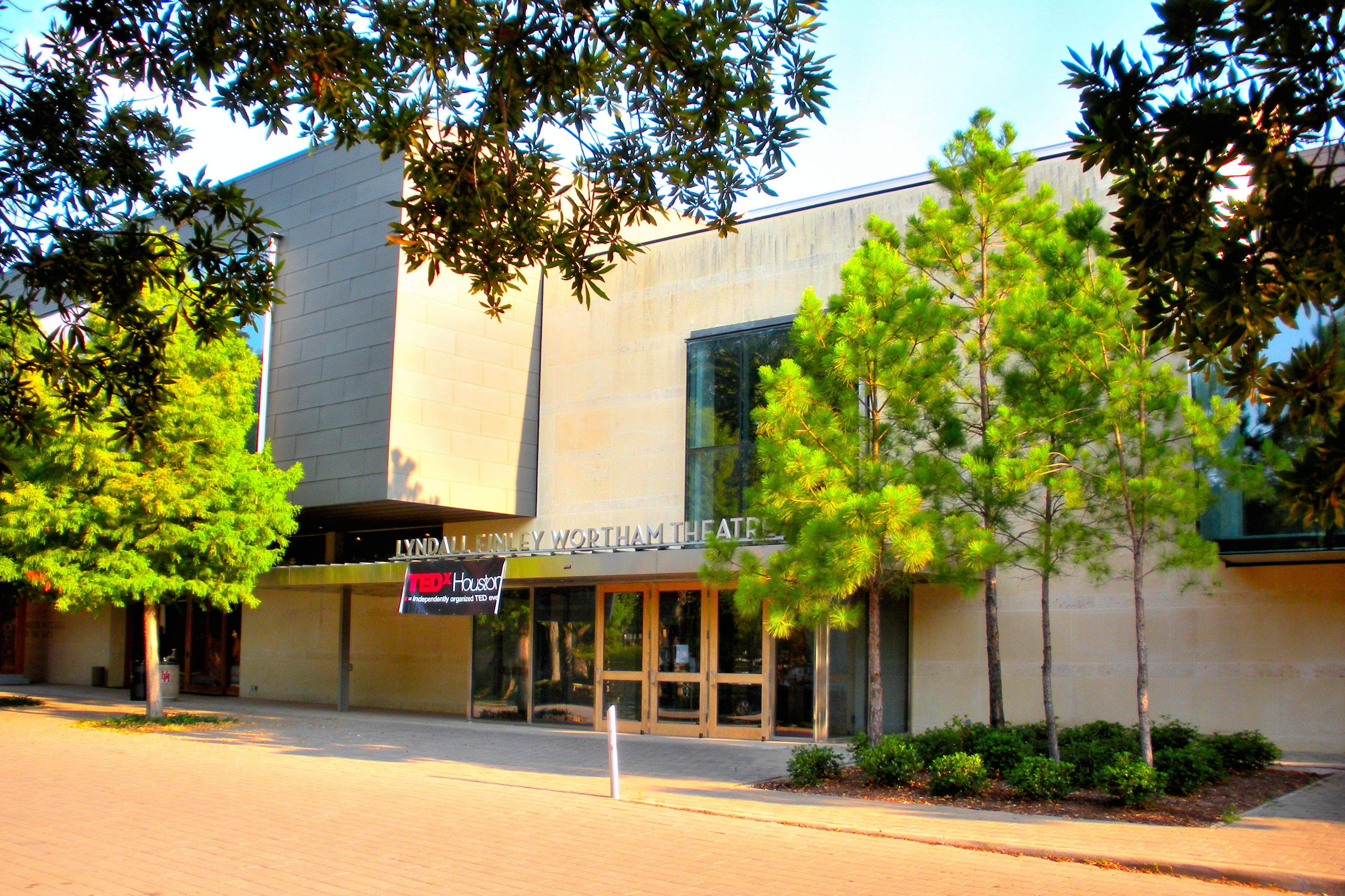 Lyndall Finley Wortham Theatre on the campus of the University of Houston